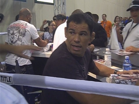 Antonio "Minotauro" Nogueira with fans - UFC 100 Fan Expo - Mandalay Bay Casino, Las Vegas